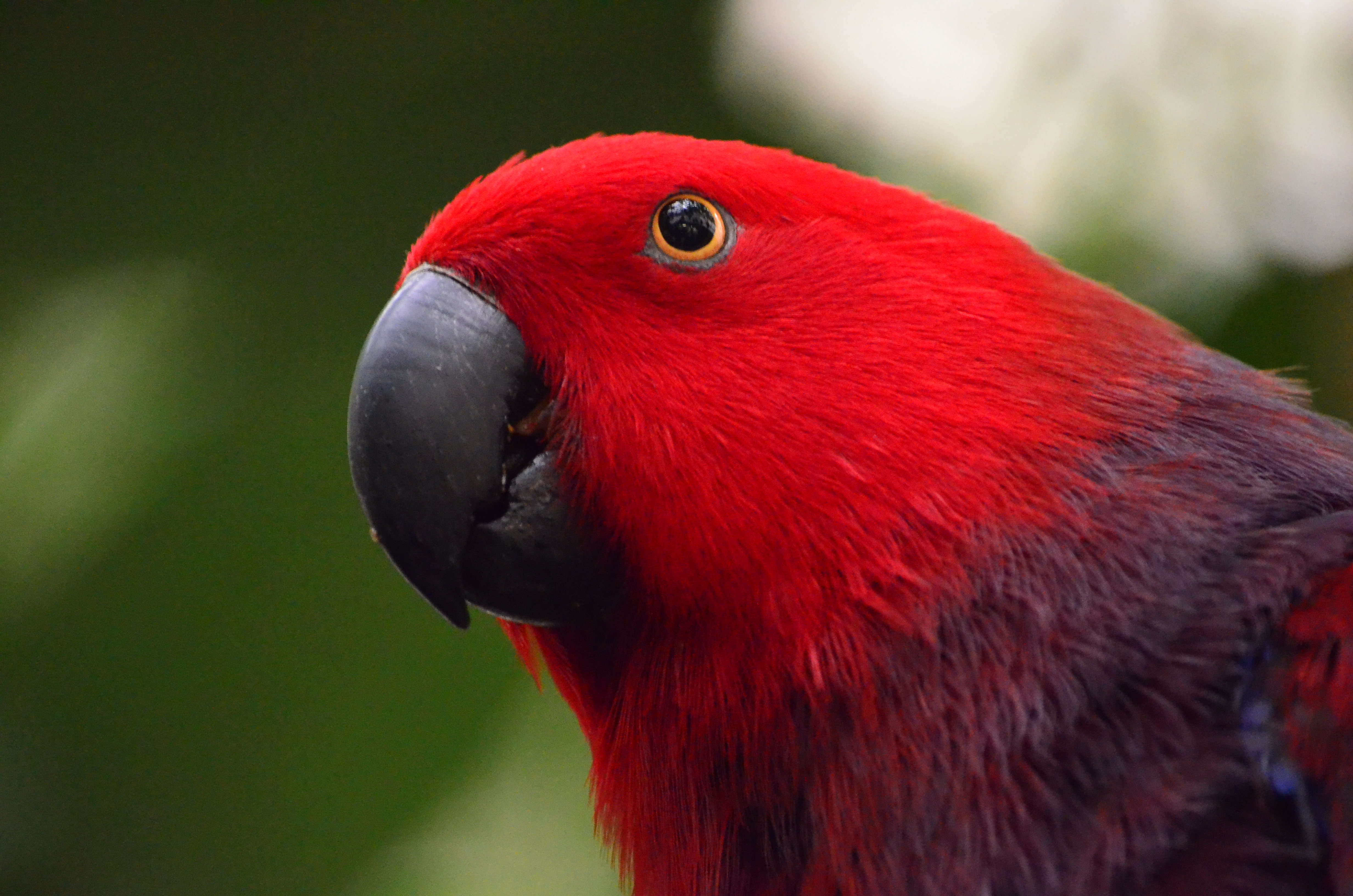 A female Eclectus Parrot at Smithsonian National Zoological Park, Washington, USA.